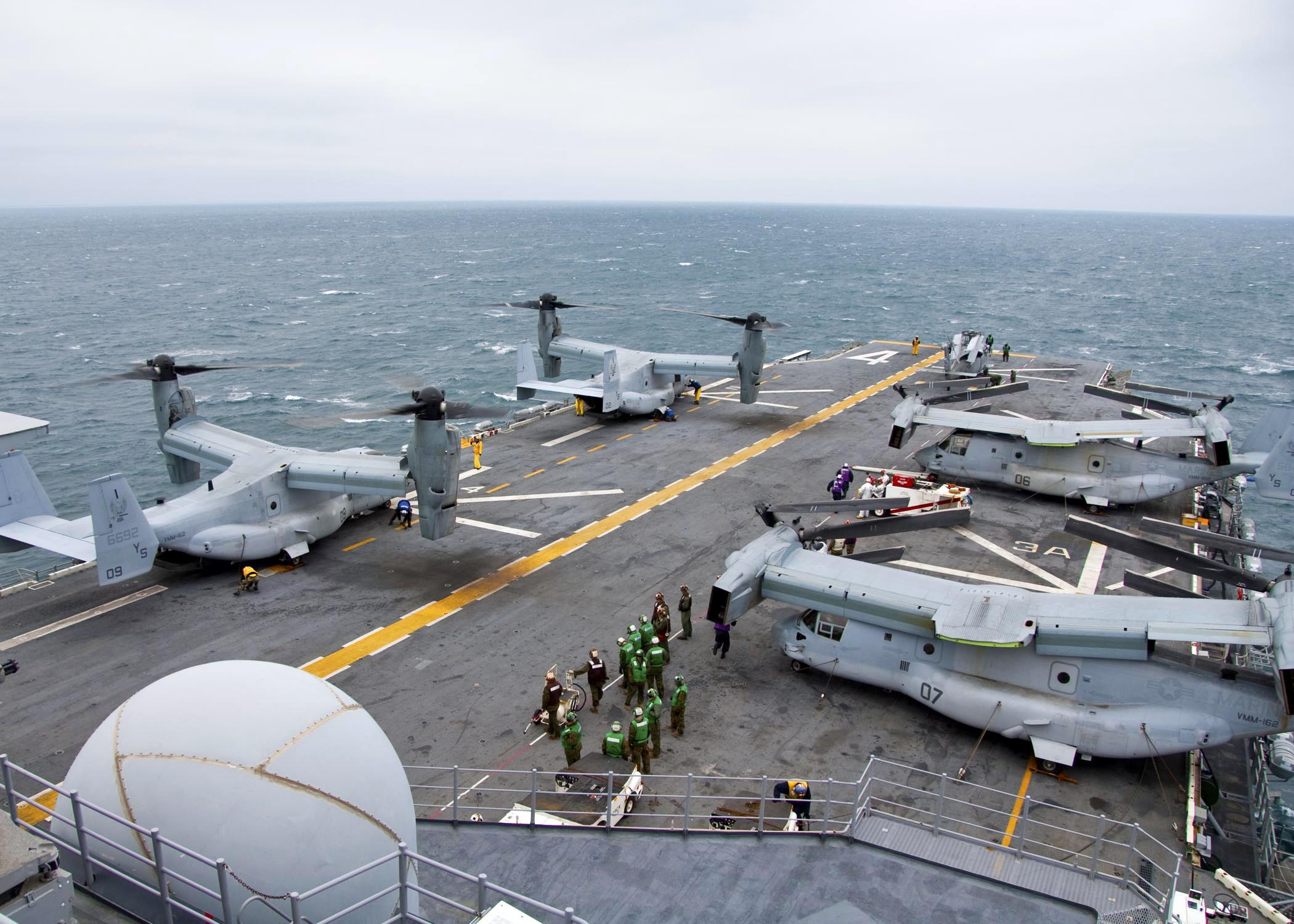 ATLANTIC OCEAN (Dec. 9, 2009) Two MV-22B Ospreys assigned to the Golden Eagles of Marine Medium Tiltroter Squadron (VMM) 162 prepare to take off from the amphibious assault ship USS Nassau (LHA 4). Nassau is underway with other elements of the Nassau Amphibious Ready Group and the embarked 24th Marine Expeditionary Unit (24th MEU) for a certification exercise before their deployment in early 2010.